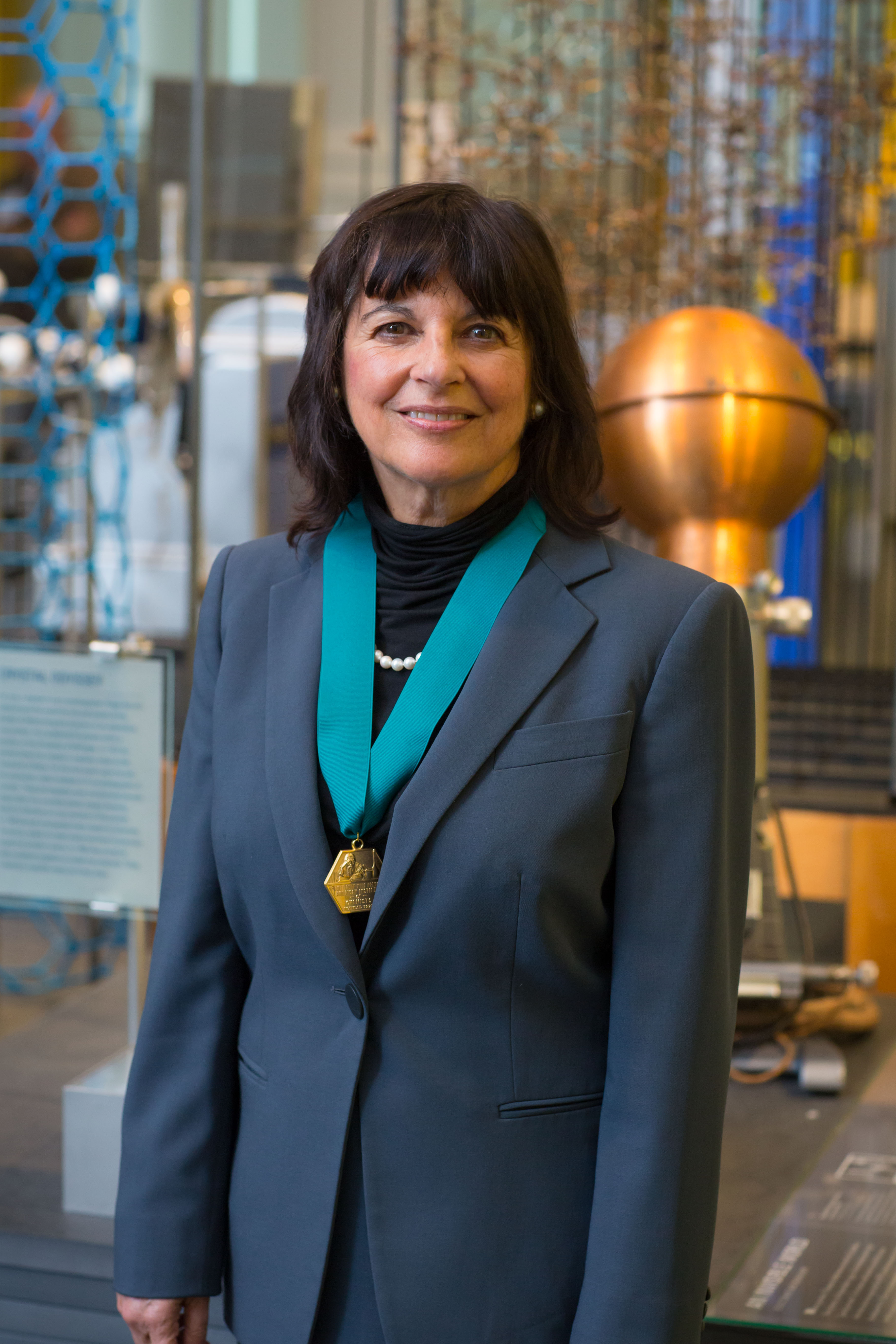 Photograph of chemist Jacqueline Barton, with the AIC Gold Medal, awarded May 14, 2015, at the Chemical Heritage Foundation.